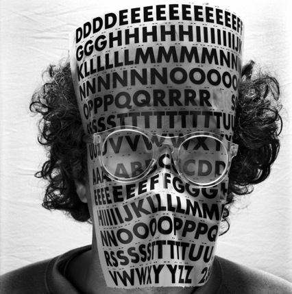 Henrik Barends, graphic designer, 1986